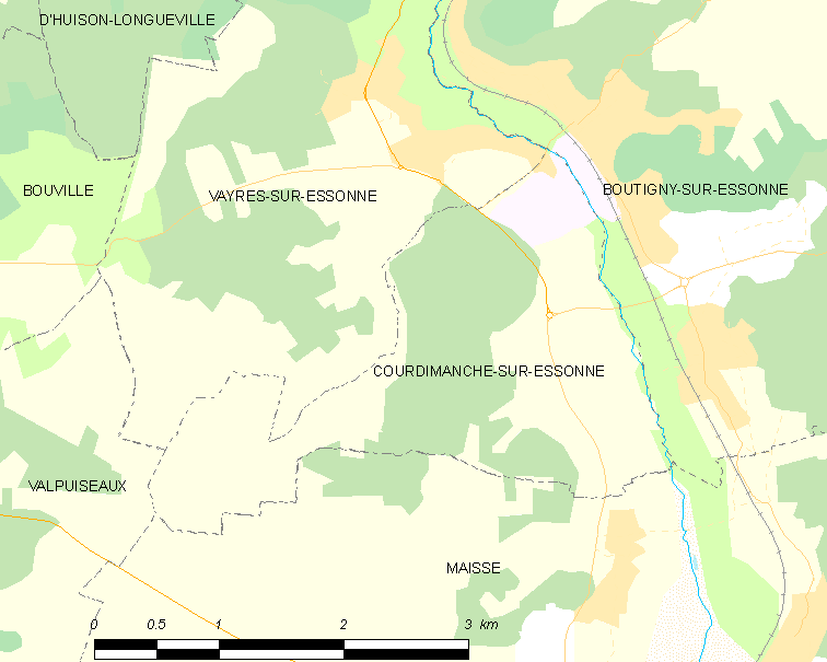 Map of French municipality Courdimanche-sur-Essonne